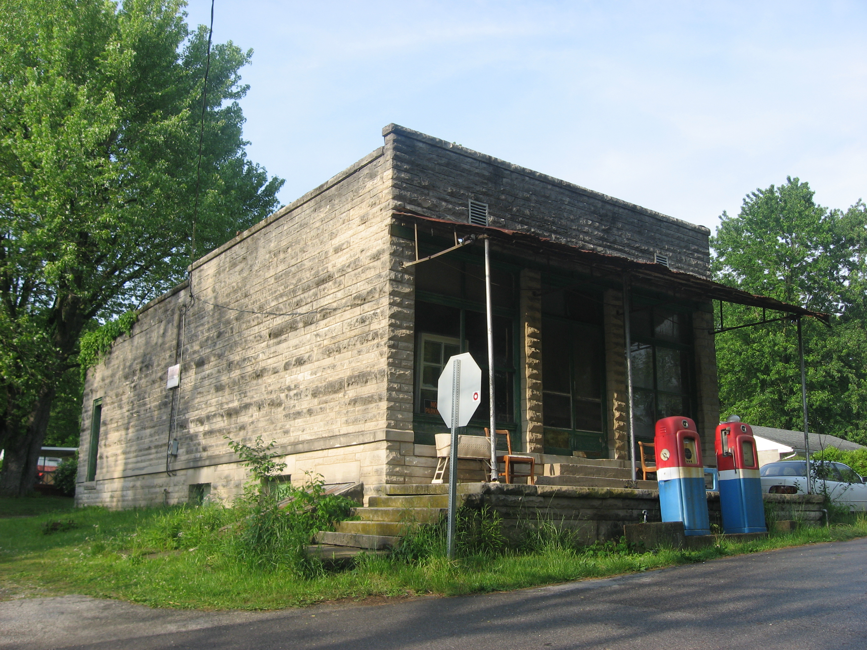 Front and western side of the old Hays Market, located on Second Street at the Fairfax Road intersection at Sanders in Perry Township, Monroe County, Indiana, United States. It was built in 1913.